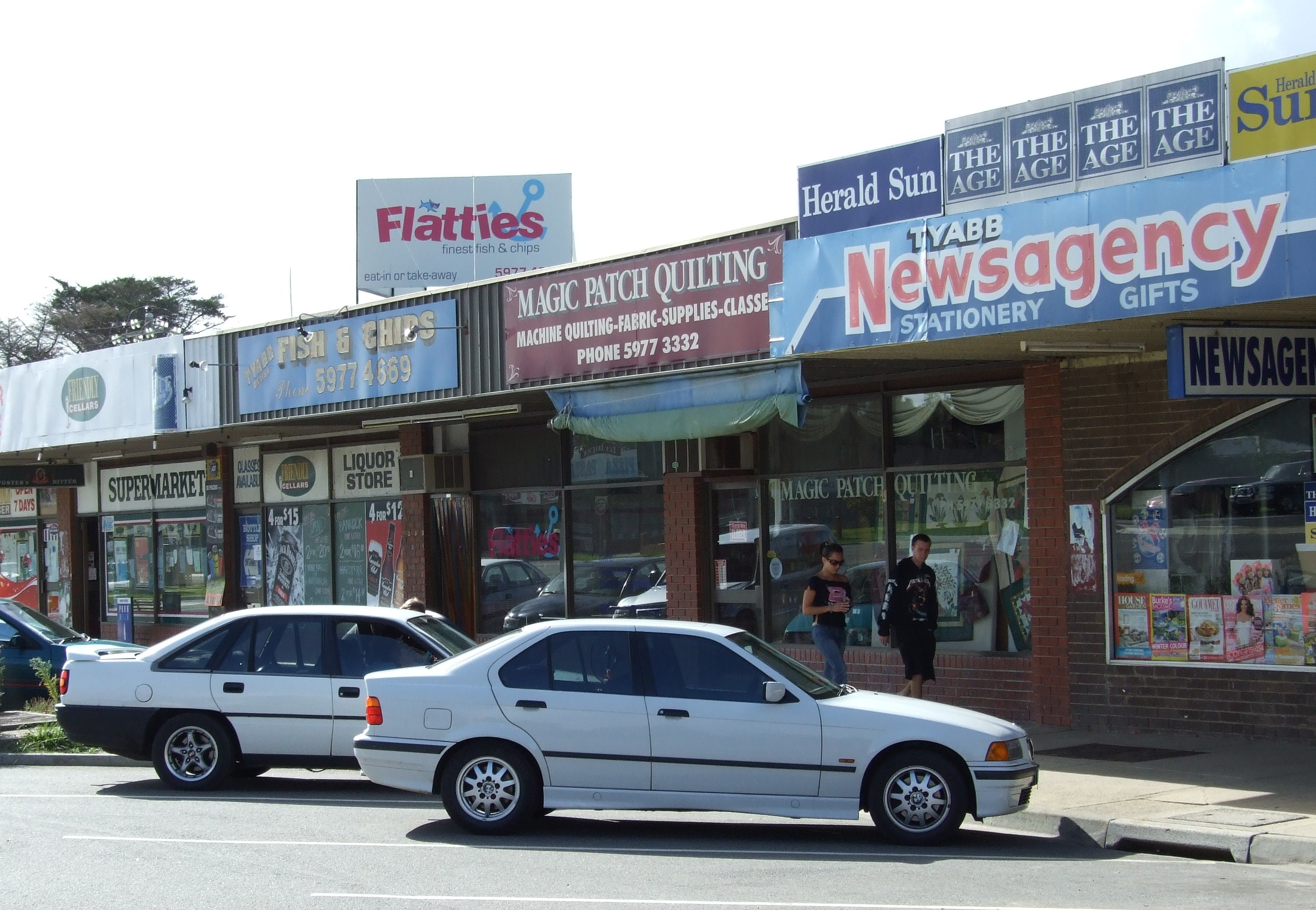 Tyabb shopping strip at the intersection of Mornington-Tyabb Road and Frankston-Flinders Road, Victoria, Australia.